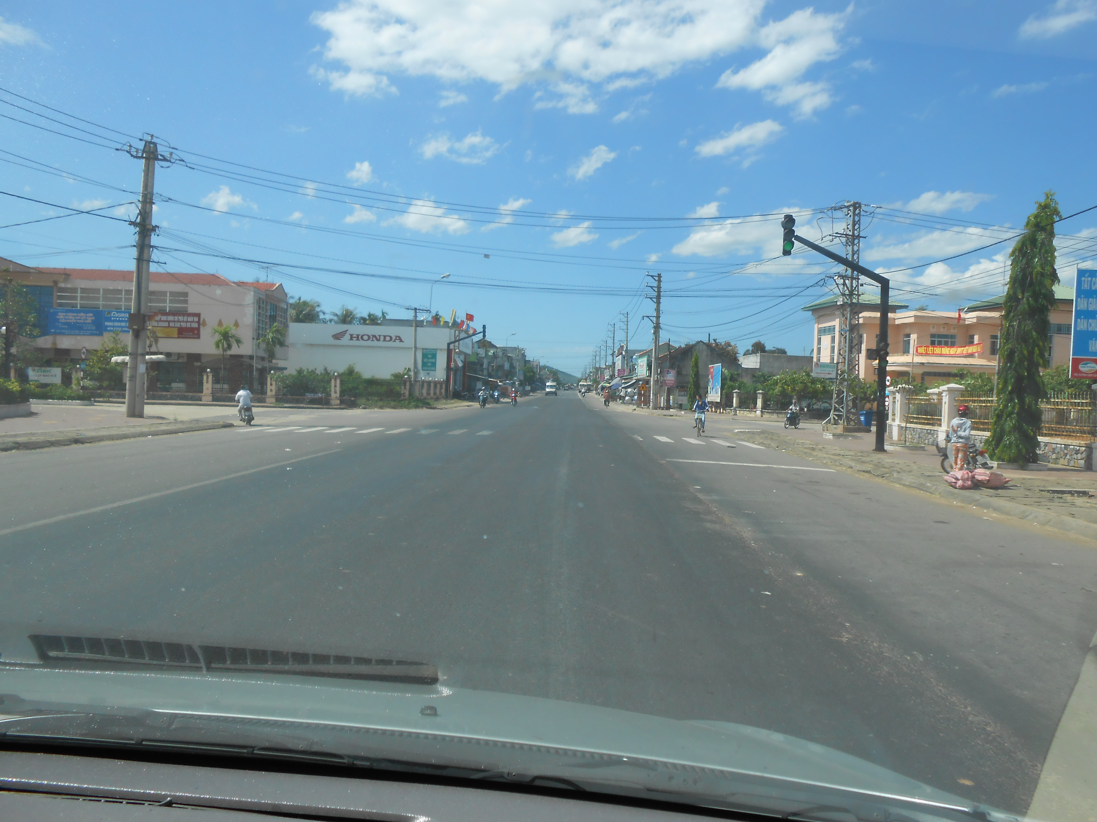 Phù Mỹ town in Phù Mỹ District, Bình Định Province